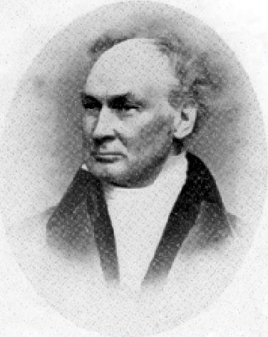 Richard Fletcher (1788-1869), Congressman from Massachusetts and President of the American Statistical Association.